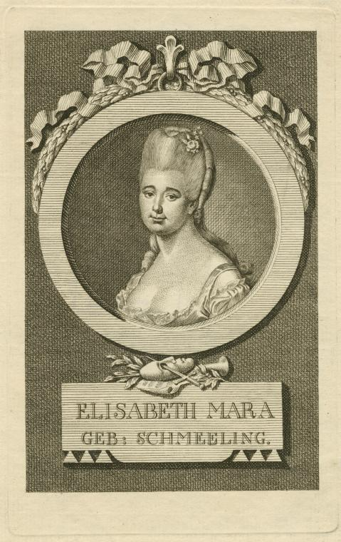 Portrait of Gertrud Elisabeth Mara (1749-1833), German soprano